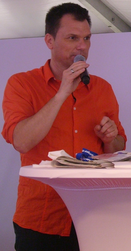 Daniel Gäsche at RBB Festival 2013 (10 years RBB)